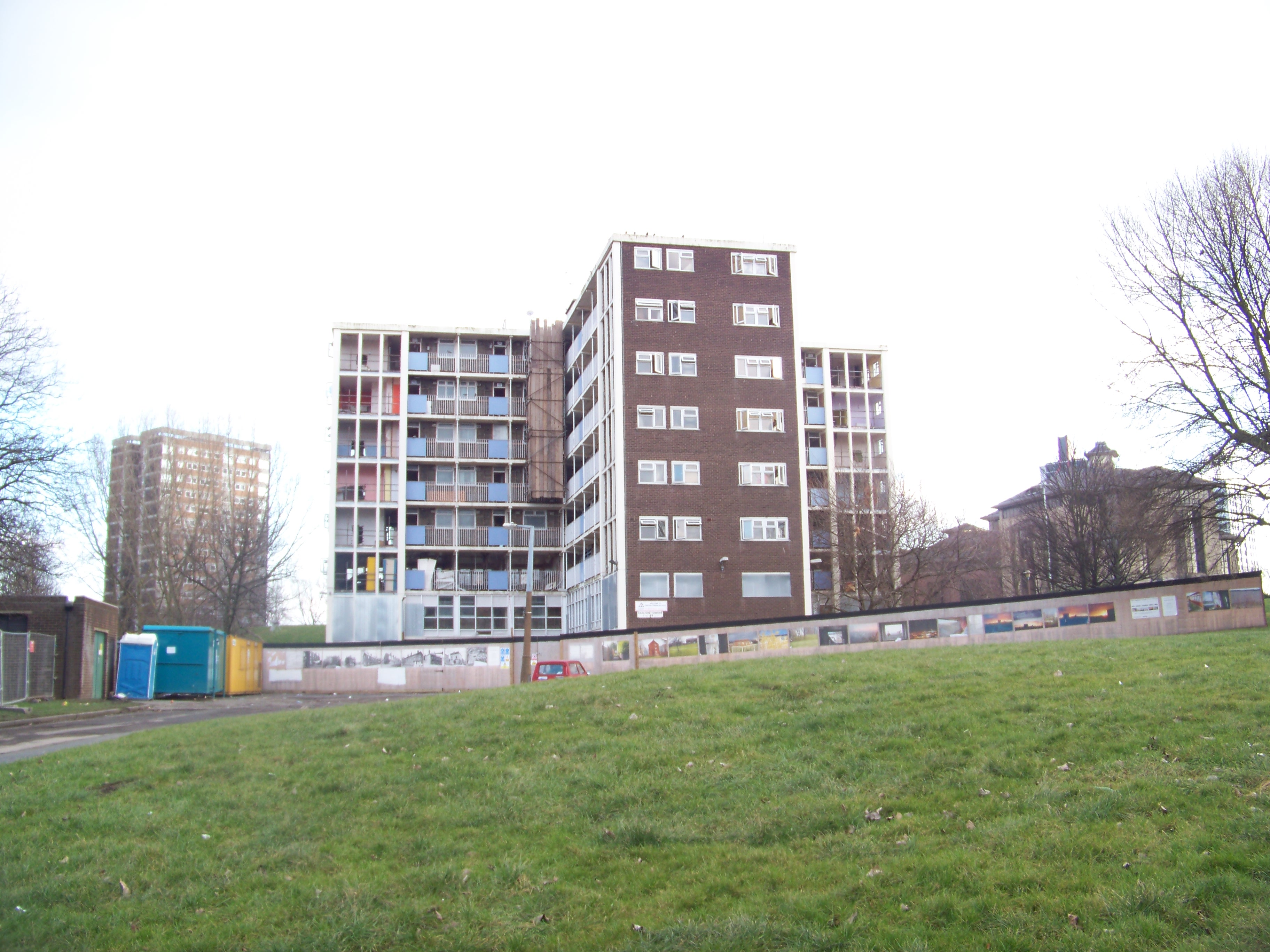 Carlton Towers (flats 1-49) prepared for demolition. The previously intimate decor of these flats is now on show for all to see. Taken on the afternoon of Saturday the 20th of February 2010.